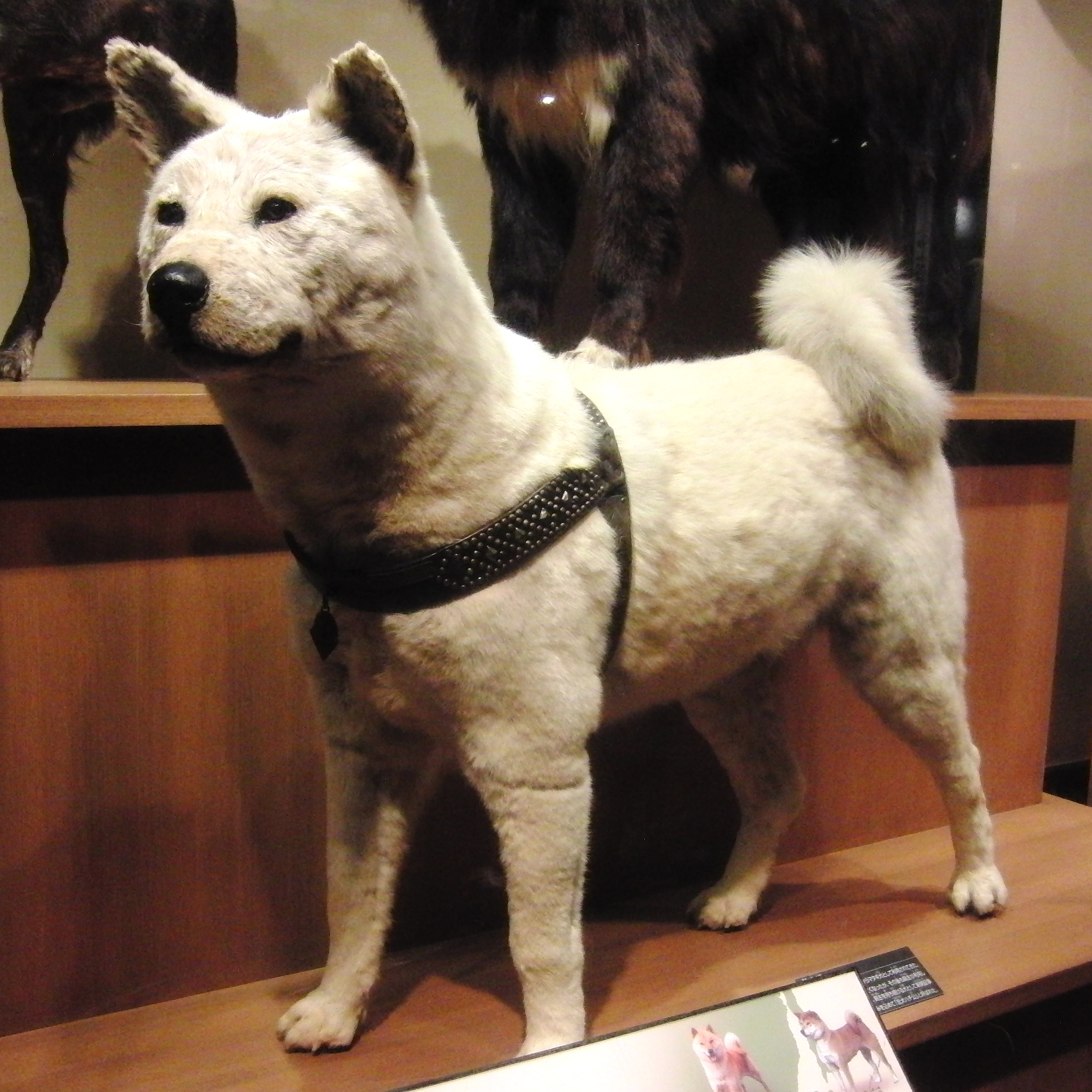 Stuffed specimen of Hachiko, Akita dog. Exhibit in the National Museum of Nature and Science, Tokyo, Japan.